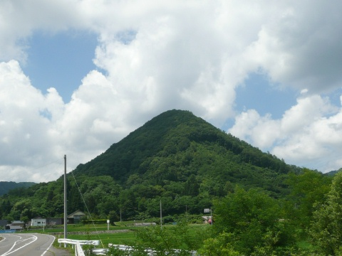 Mount Omori (Omori-yama) seen from the SE, in Kosaka, Akita Prefecture, Japan.